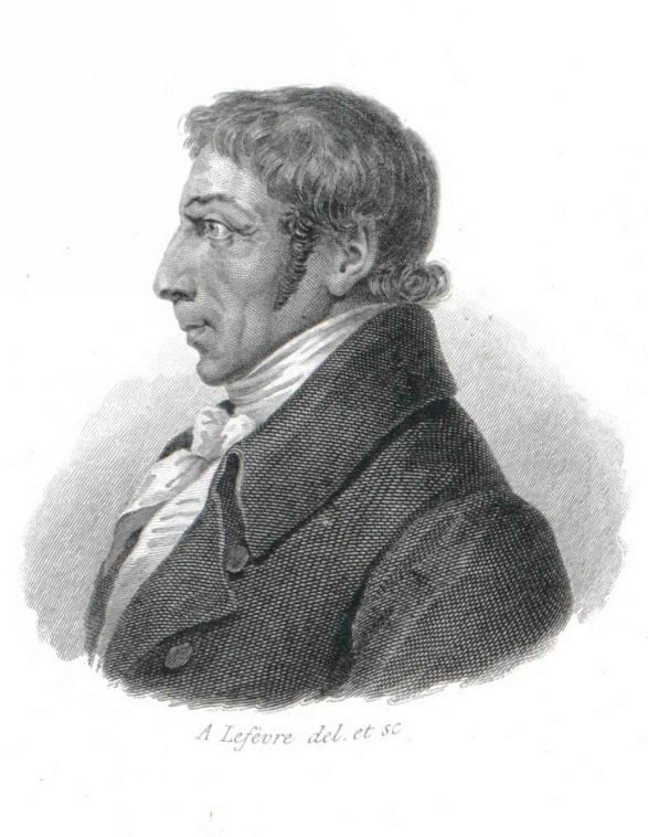 Albrecht Danieol Thaer, Stich. a renowned German agronomist and an avid supporter of the humus theory for plant nutrition.